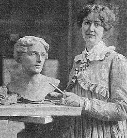 Alice Nordin in her workshop